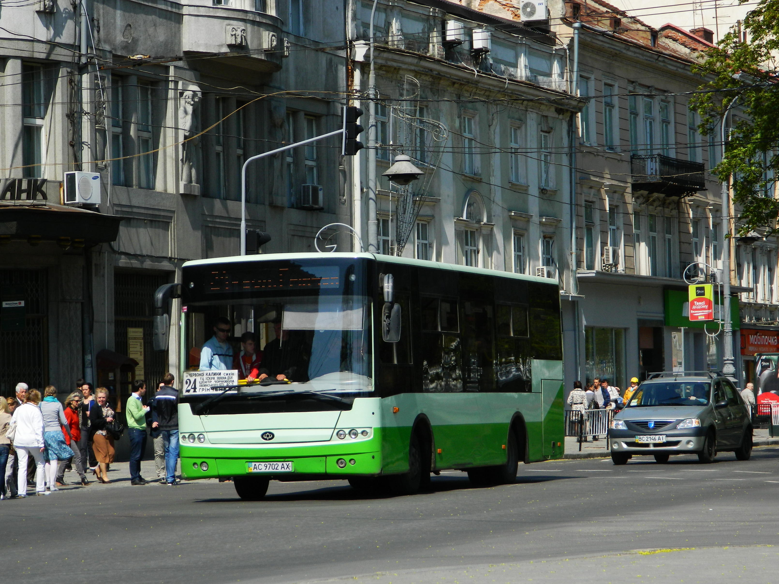 Bogdan A09280 bus in Lviv. Built 2010, АТП-14630 operator.